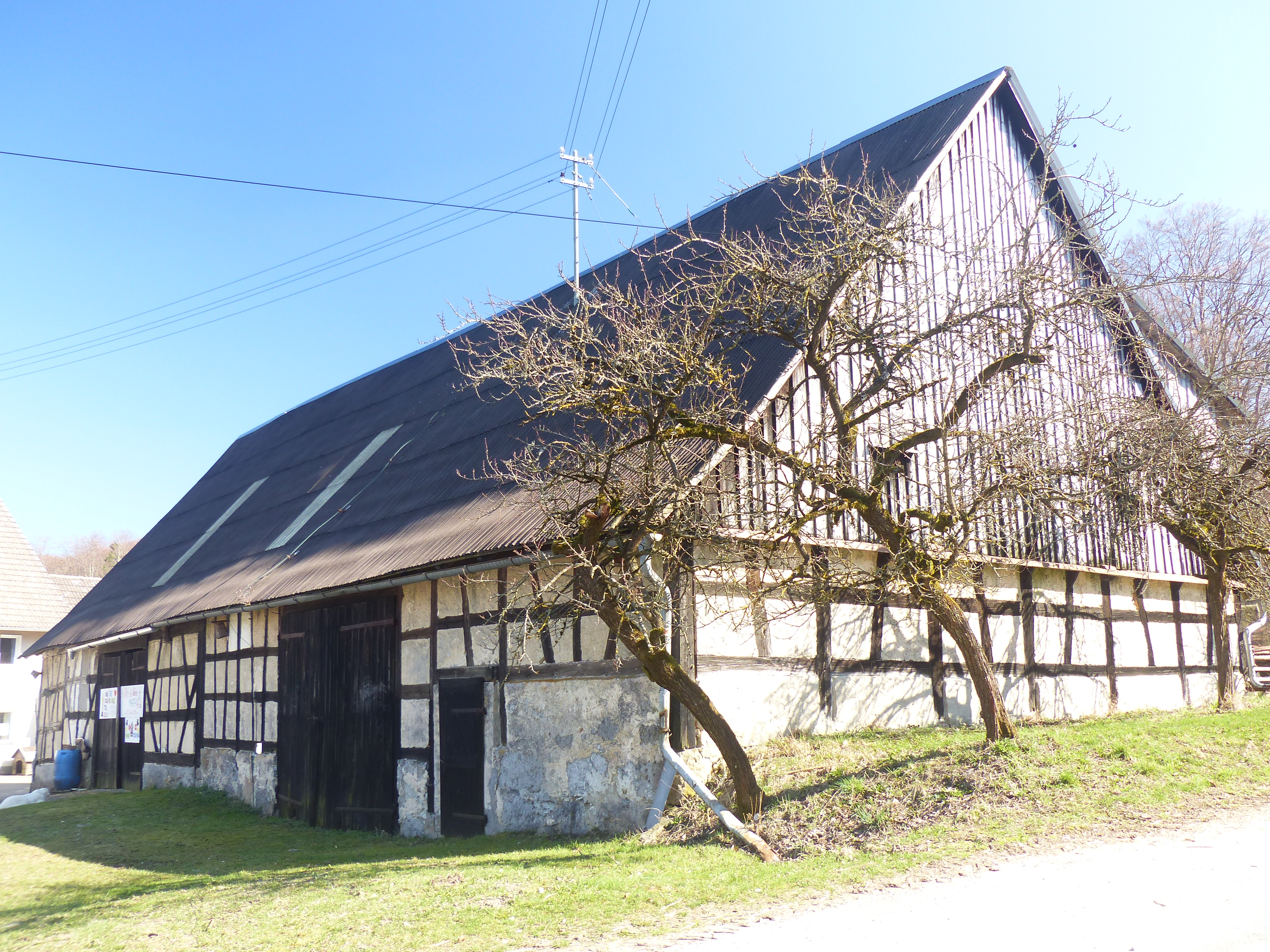 A half-timbered barn in the hamlet Göring, a district of the municipality Hiltpoltstein